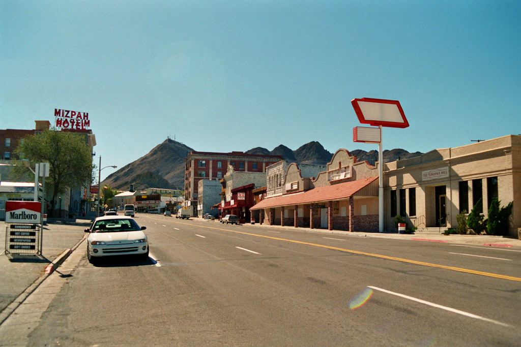 US 6 & US 95 passing through the center of Tonopah, Nevada.